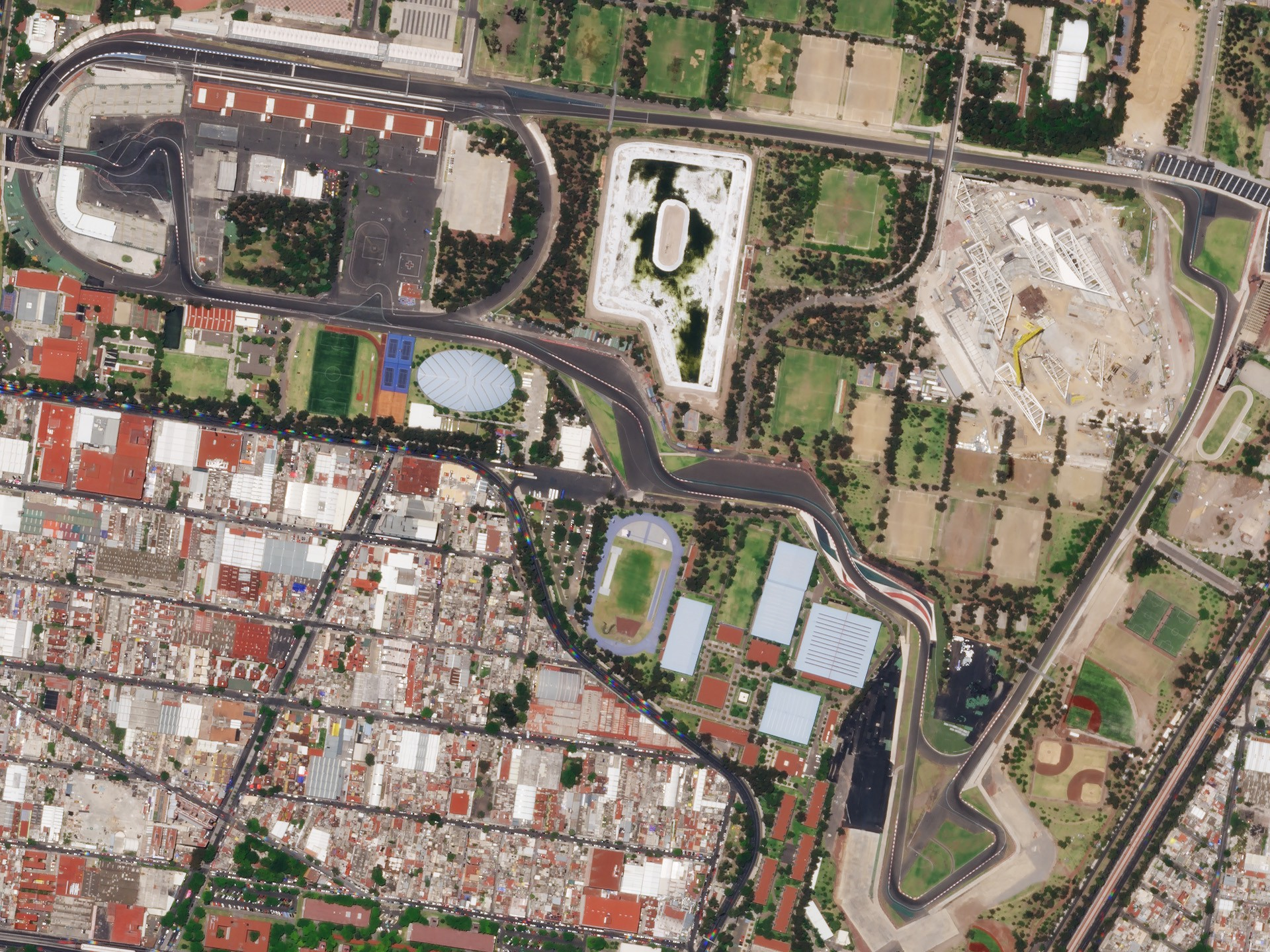 The Autódromo Hermanos Rodríguez, a motorsport race track in Mexico City, Mexico and host of the Formula One Mexican Grand Prix. Image taken on June 4, 2018, by a Planet Labs SkySat satellite.